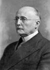 Vilhelm Birkedal Lorenzen (1877-1961), Danish (art) historian and educator